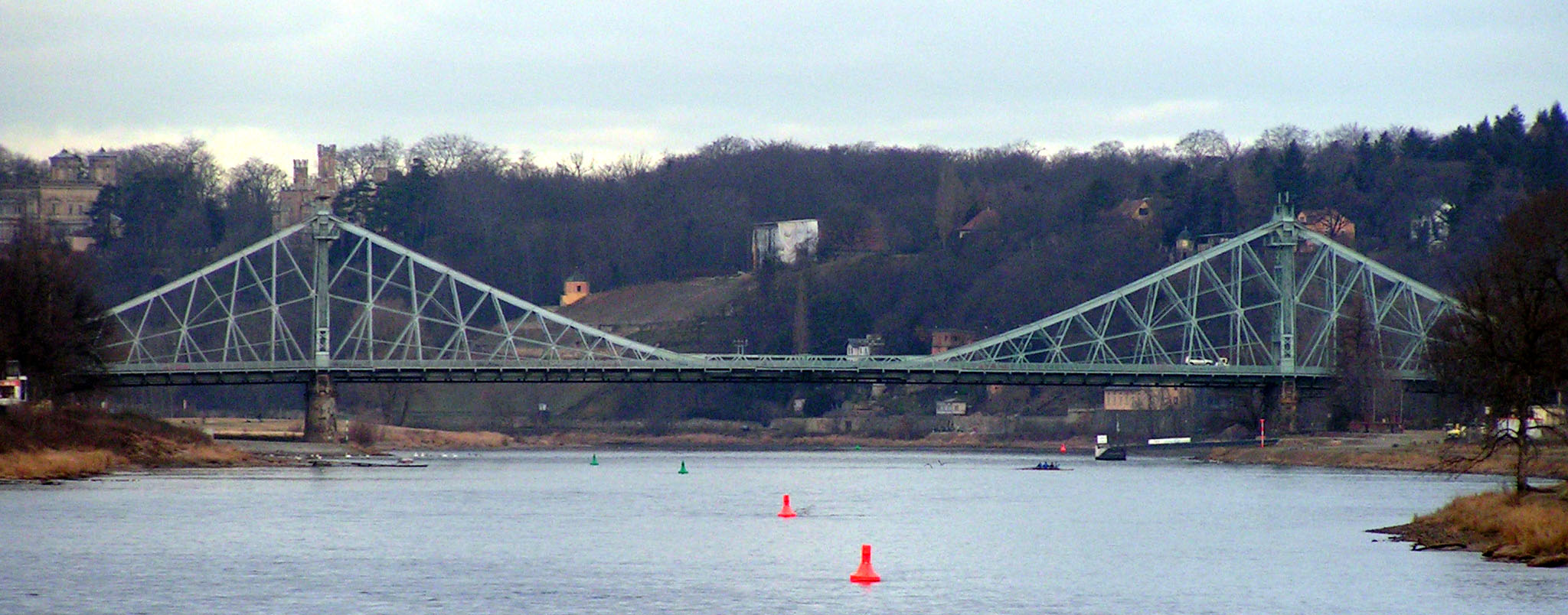 Bridge "Blue Wonder", Dresden, Saxony, Germany